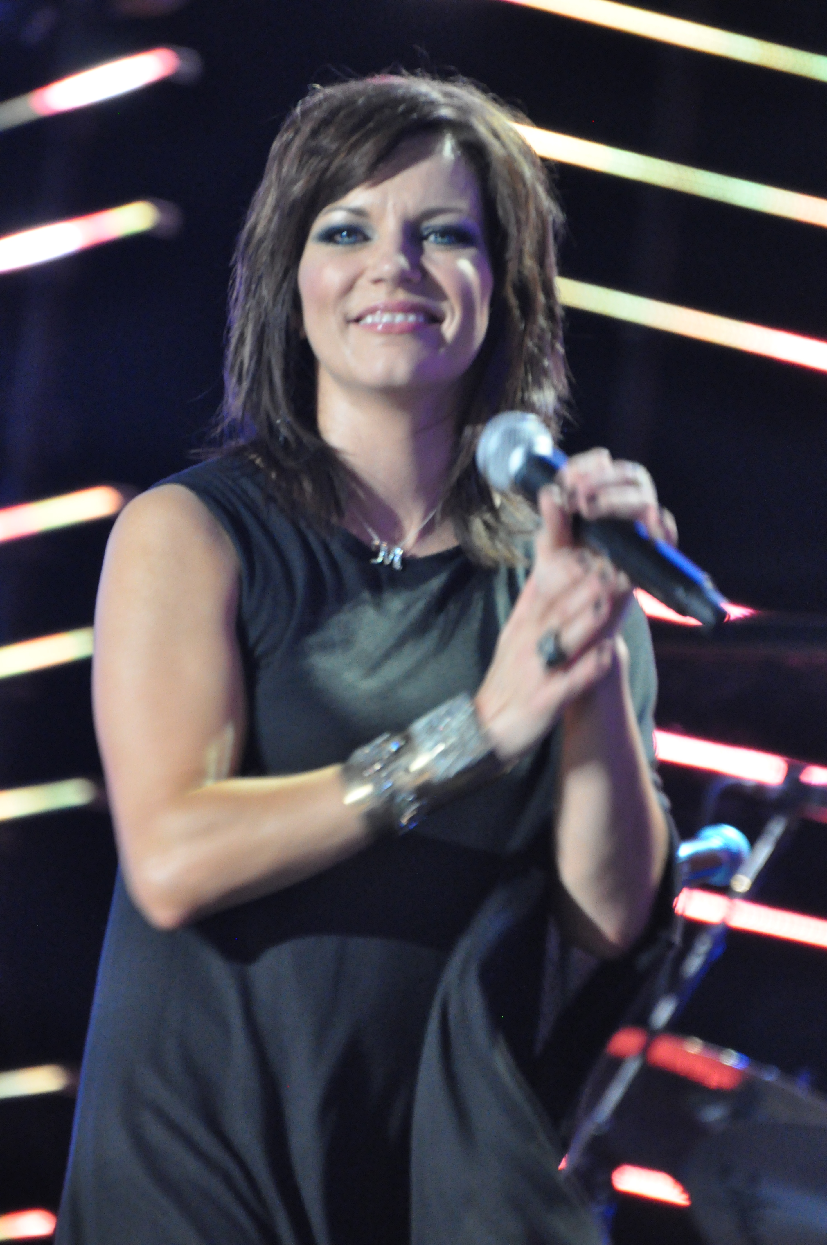 Martina McBride performing in June 2010